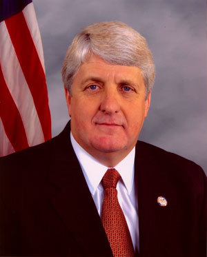 Rob Bishop, member of the United States House of Representatives.